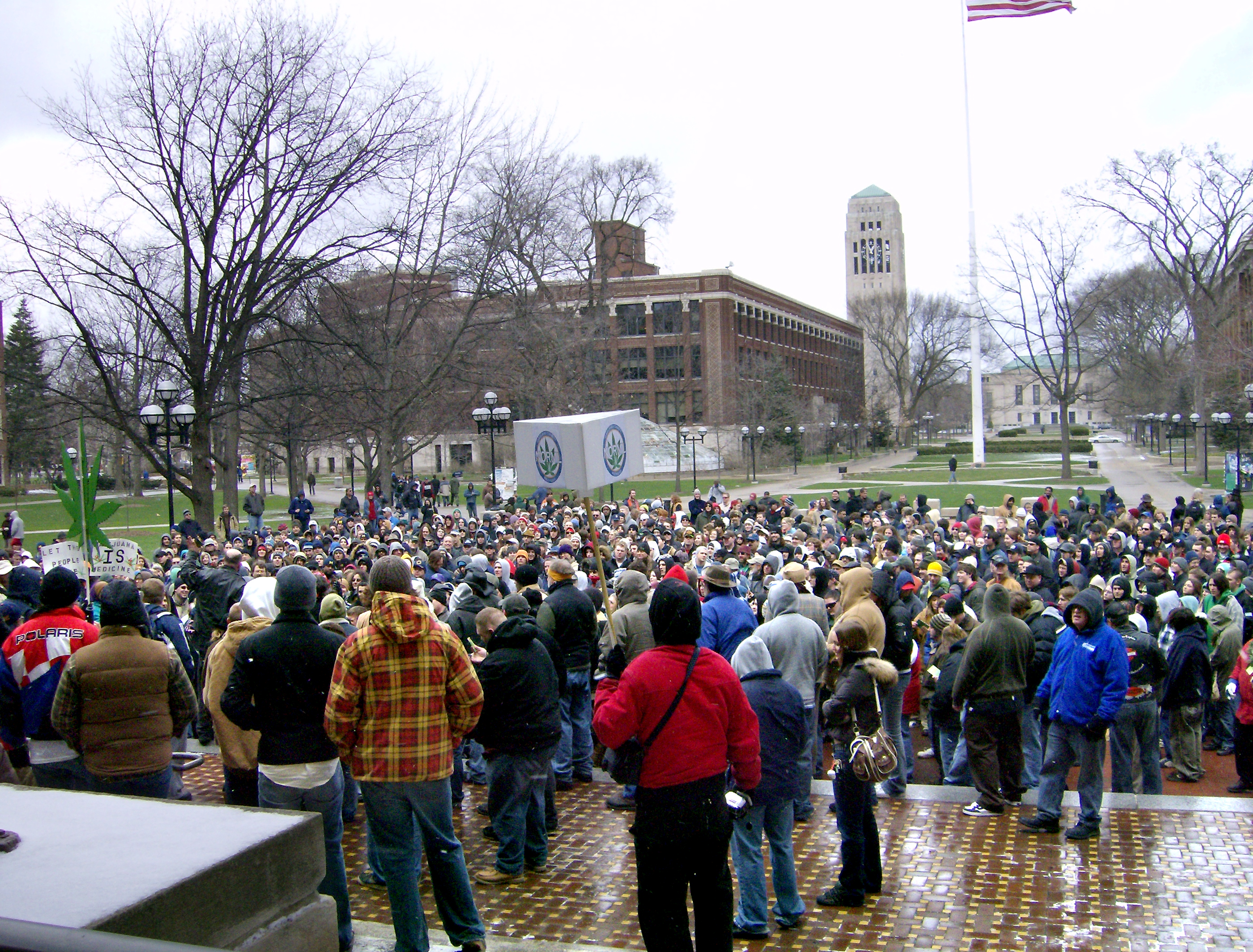 Picture of the Hash Bash in Ann Arbor, Michigan, taken April 7th, 2007, around 12:55 PM. The speaker in this photo is the bald man in the leather jacket close to the large replica cannabis leaf on a pole, on the left side of the image. I am the author of this work and release it under the Creative Commons Attribution ShareAlike license.